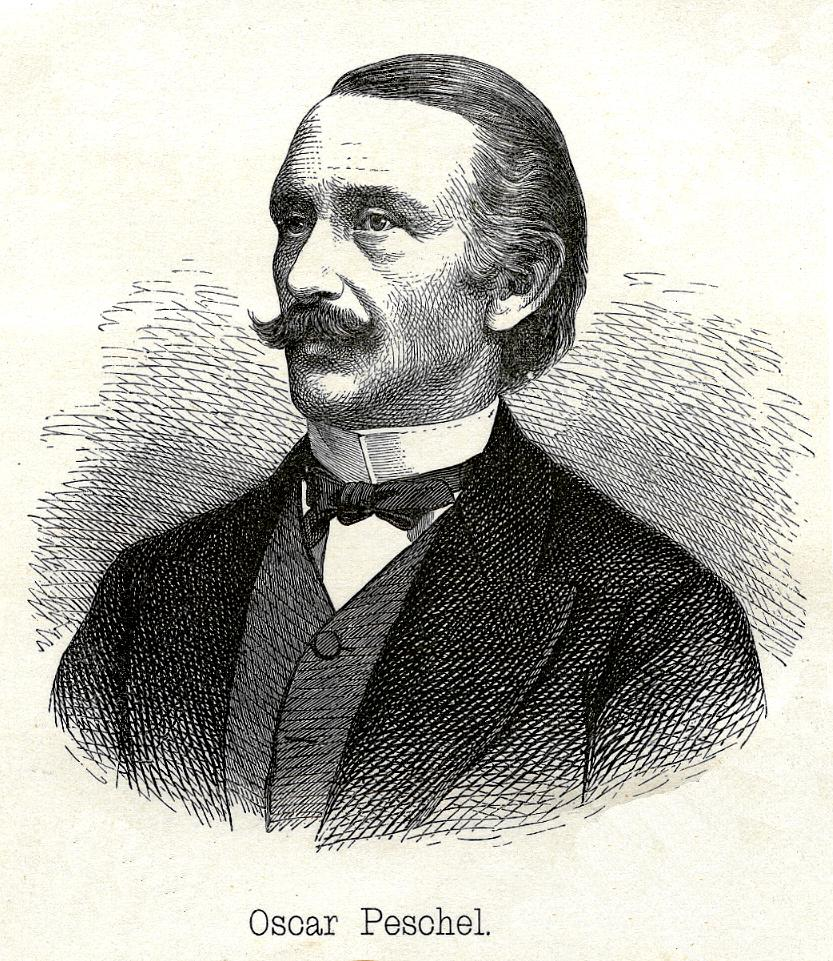 Portrait of Oscar Ferdinand Peschel (1826-1875), German geographer, writer and editor